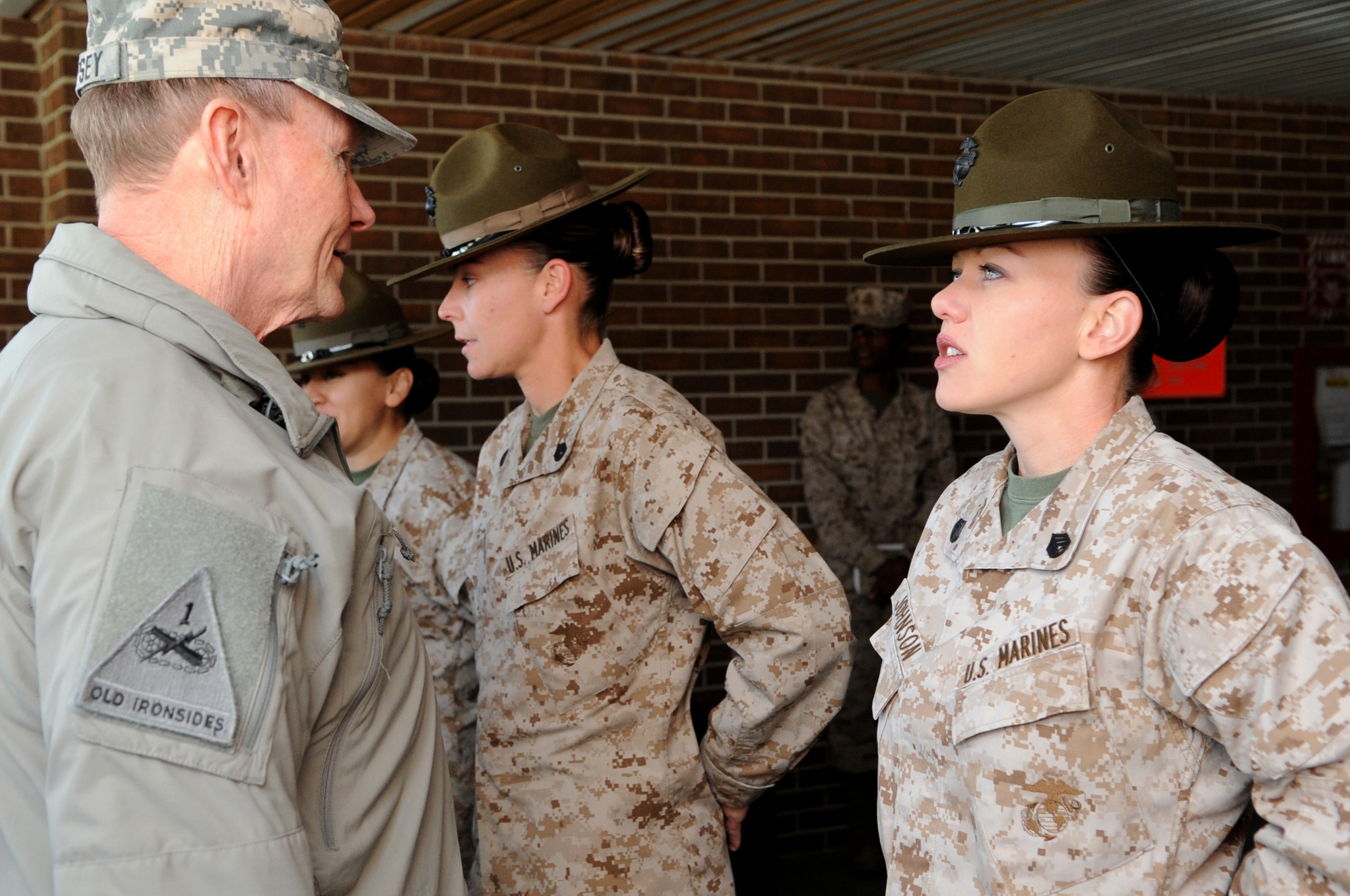 Chairman of the Joint Chiefs of Staff Gen. Martin E. Dempsey talks with U.S. Marine Corps drill instructors at the 4th Recruit Training Battalion, Parris Island, S.C., on March 21, 2013. The 4th Recruit Training Battalion is a female-only unit at Parris Island.